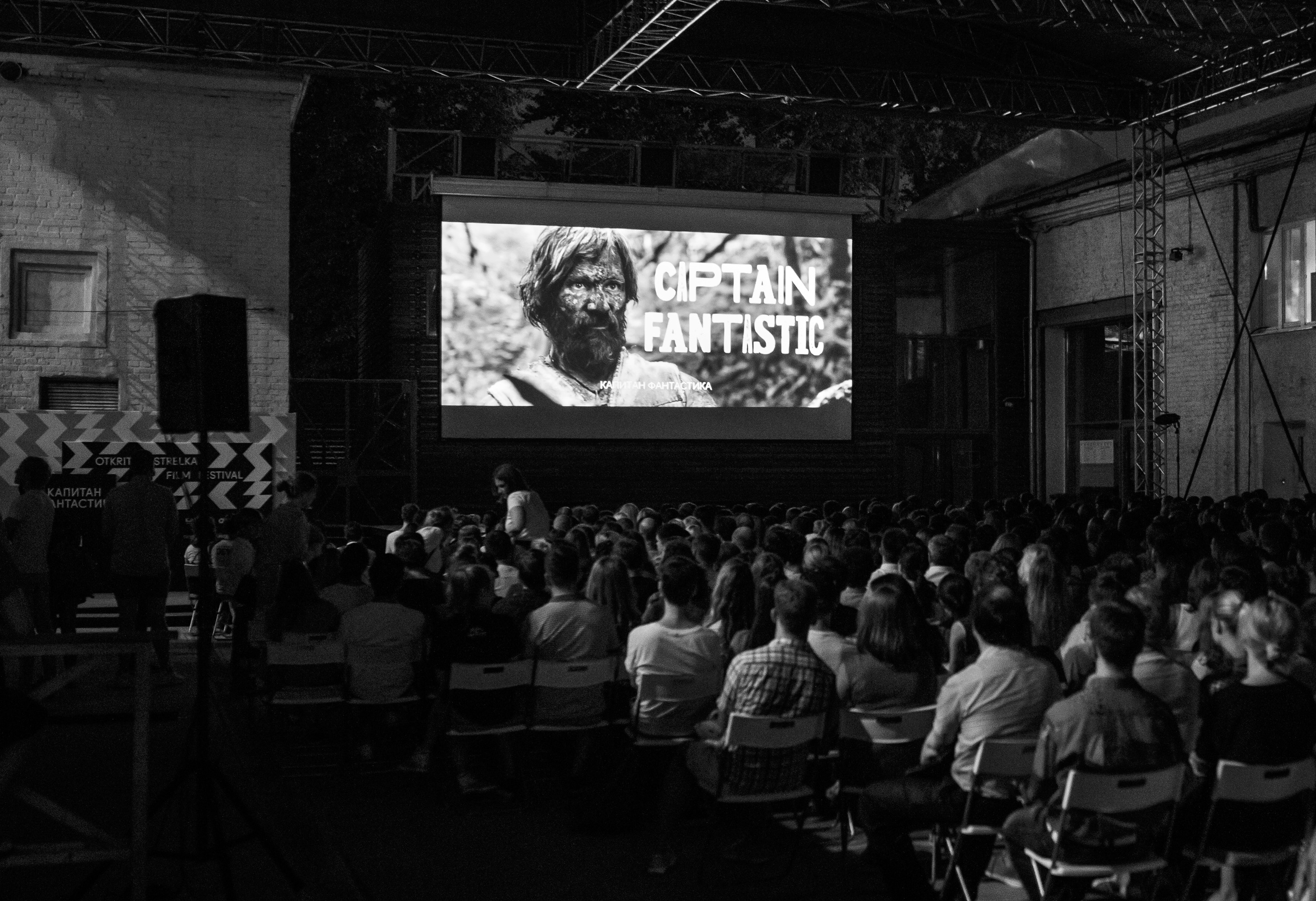 Photo by Mikhail Goldenkov / Strelka Institute